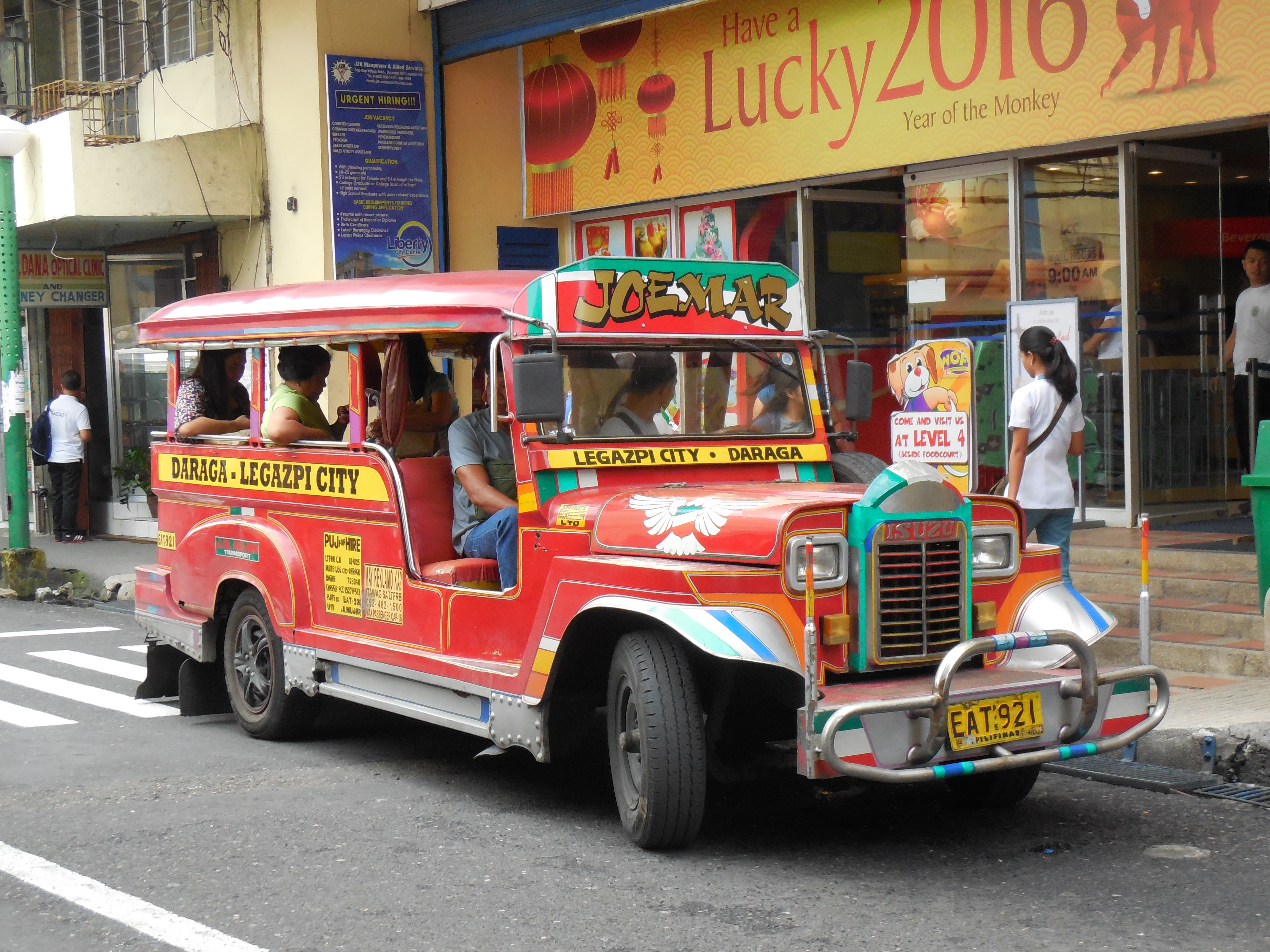 A typical jeepney, which plies the Legazpi-Daraga route, waits for passengers in front of the LCC Supermarket along Penaranda Street, Legazpi City, Albay, Philippines.